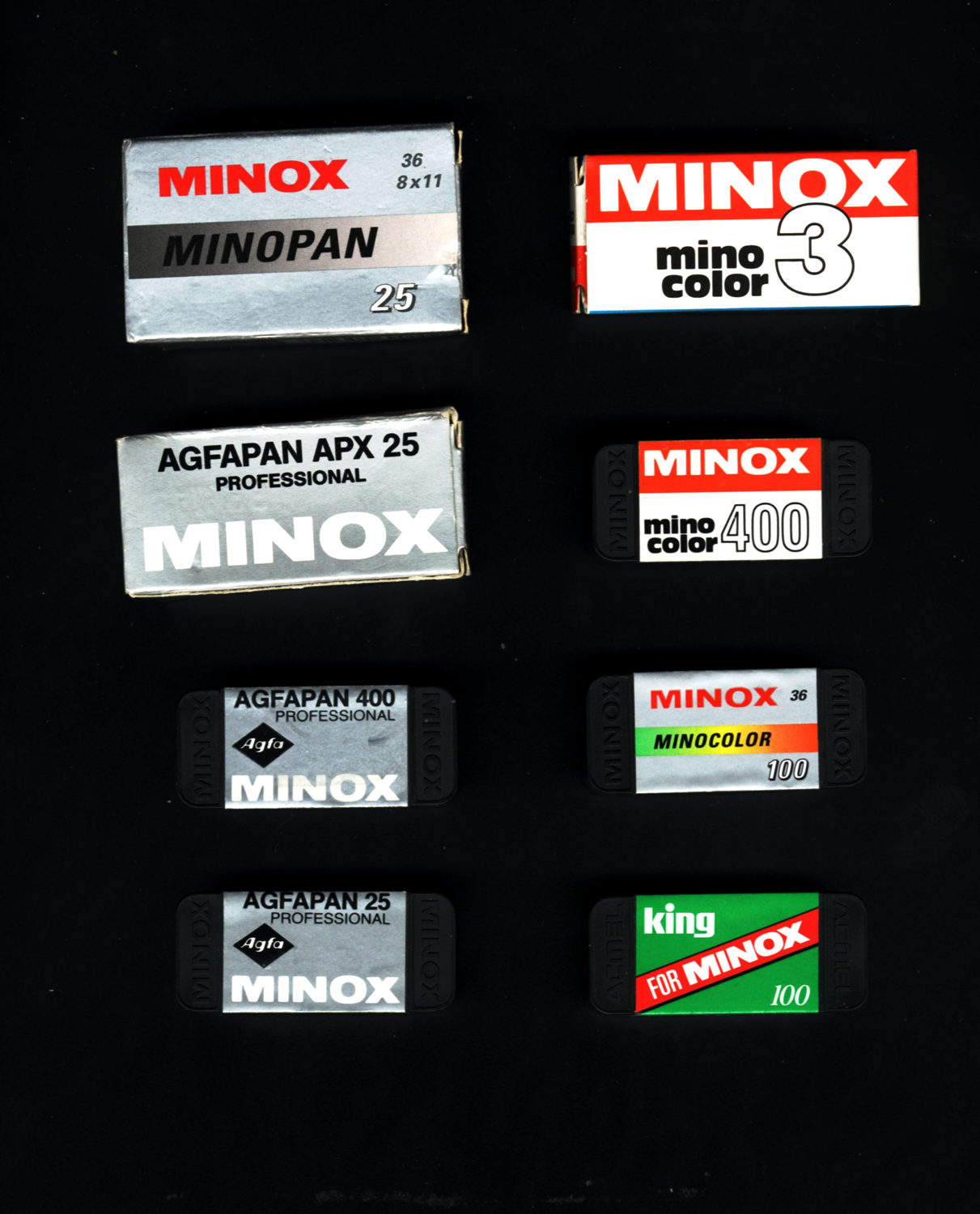 Samples of Minox 8x11 film packages